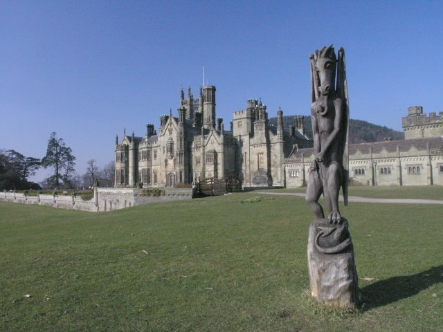 Margam Castle and a carving of a dragon. Margam castle was built between 1830 and 1840 by Christopher Rice Mansel Talbot (the namesake of nearby Port Talbot). This Tudor Gothic mansion was famous for its sculptures and carved woodwork paneling for many years until on August 4th, 1977 it was gutted by a massive fire. The stone shell survived and today, after some restoration most of the interior is now restored, though sadly, little of the original splendour of the paneling now adorns the bare stone interior walls save one tiny example in the magnificent room that contains the staircase. The carving in the foreground is by Nansi Heming and as known as Yew Dragon. It was commissioned by the Welsh woodfest organisers as part of the first South wales woodfest in 2005. Originally it was a rich red in colour but a couple of years of pollution now leave it a dull grey. Another example of Nansi's work found near her home in Lampeter can be found at 579429.